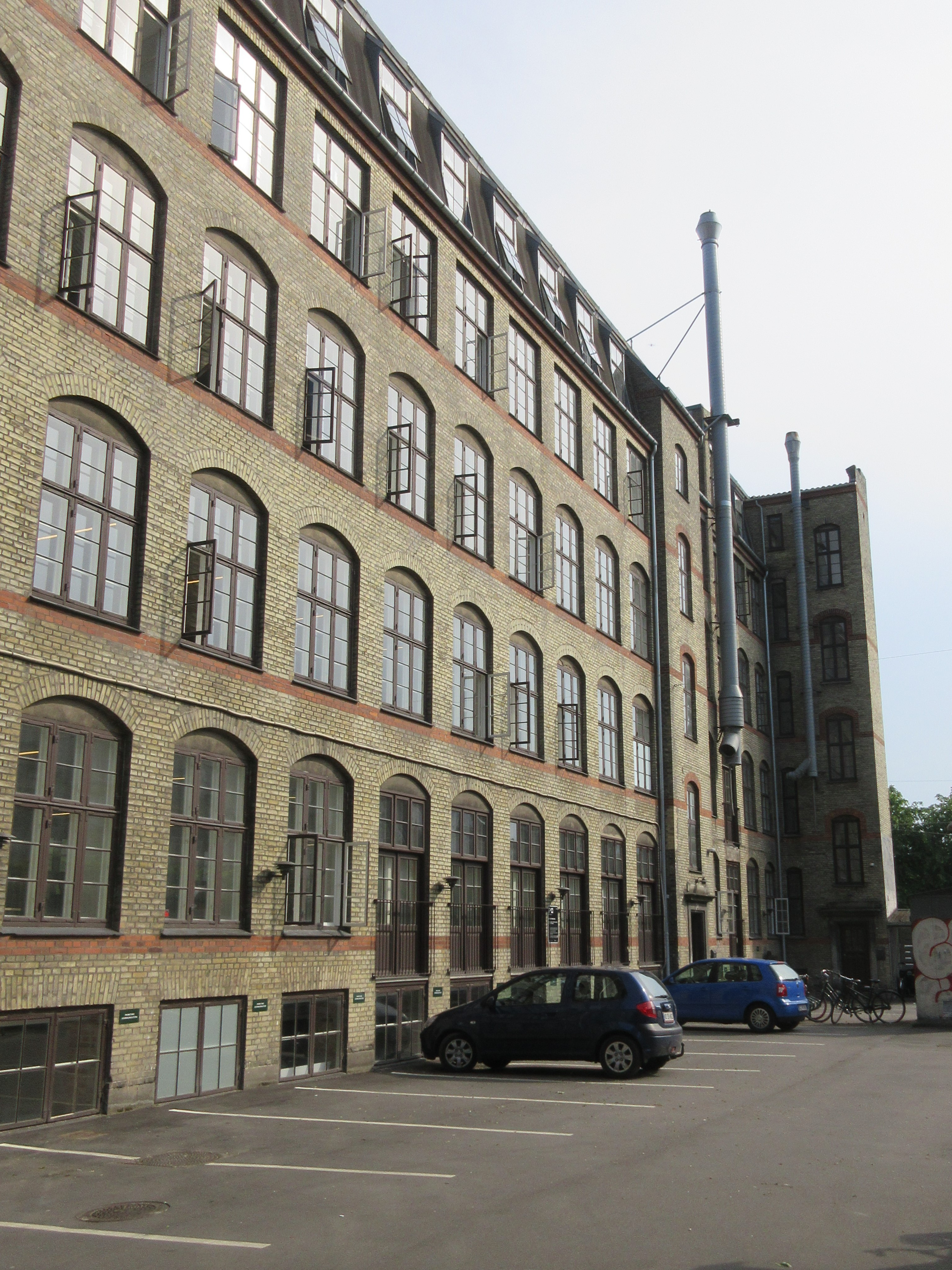 Rud. Rasmussen at Nørrebrogade 45 in Copenhagen, Denmark